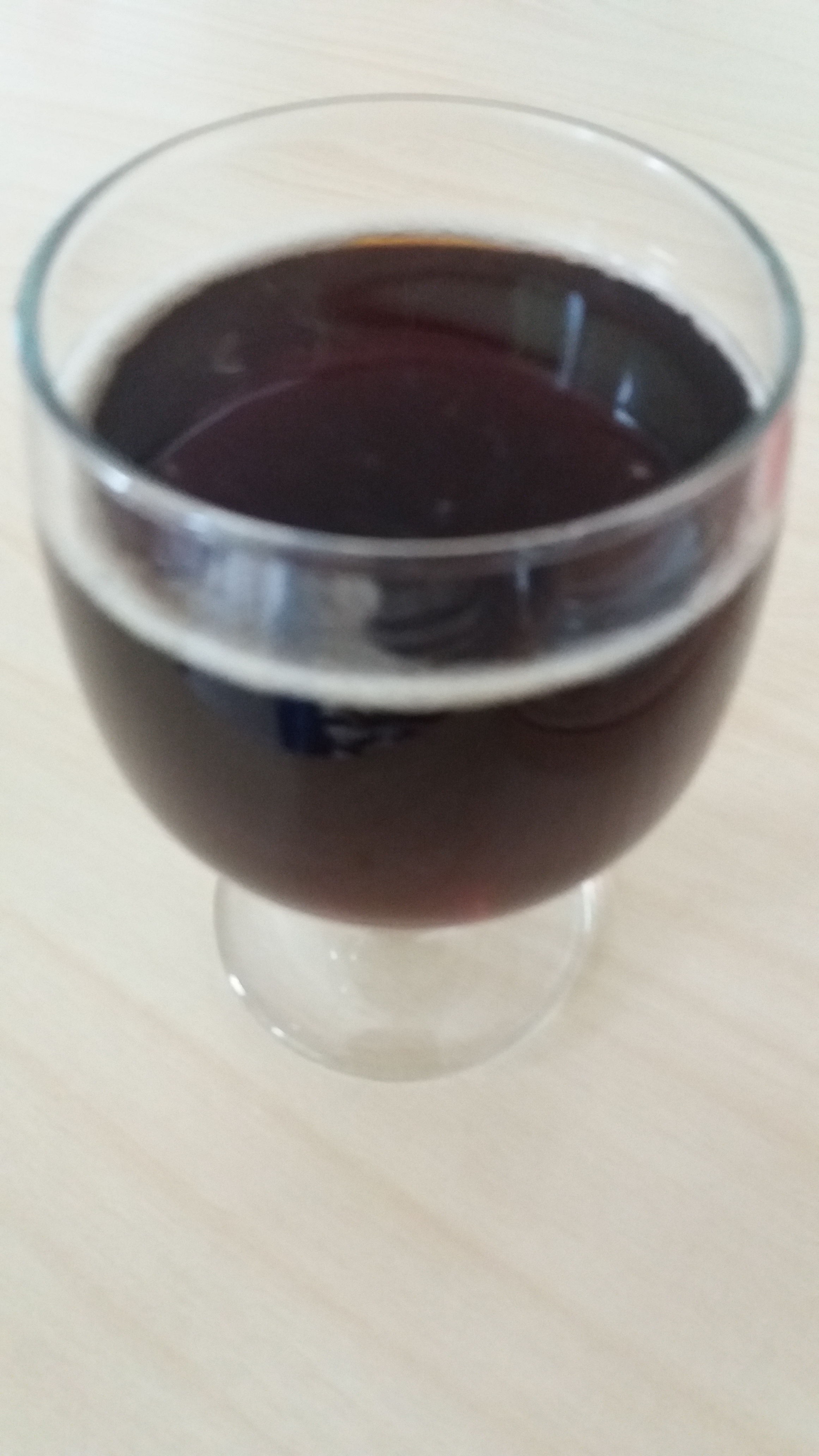 A glass of Finnish small beer